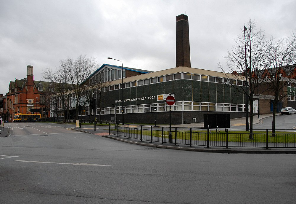 Former Wigan International Pool